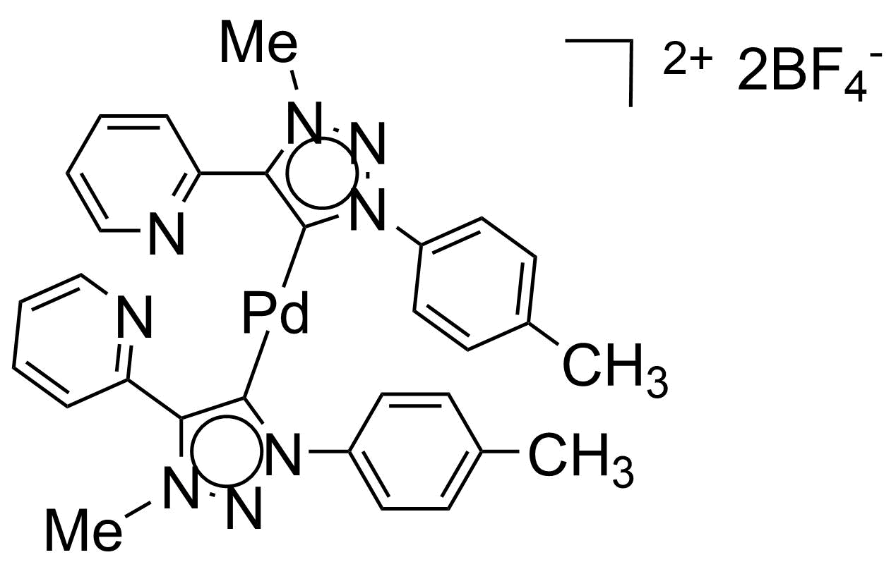 An example of efficient Pd PEPPSI complex for the catalysis of copper-free Sonogashira reaction in water.